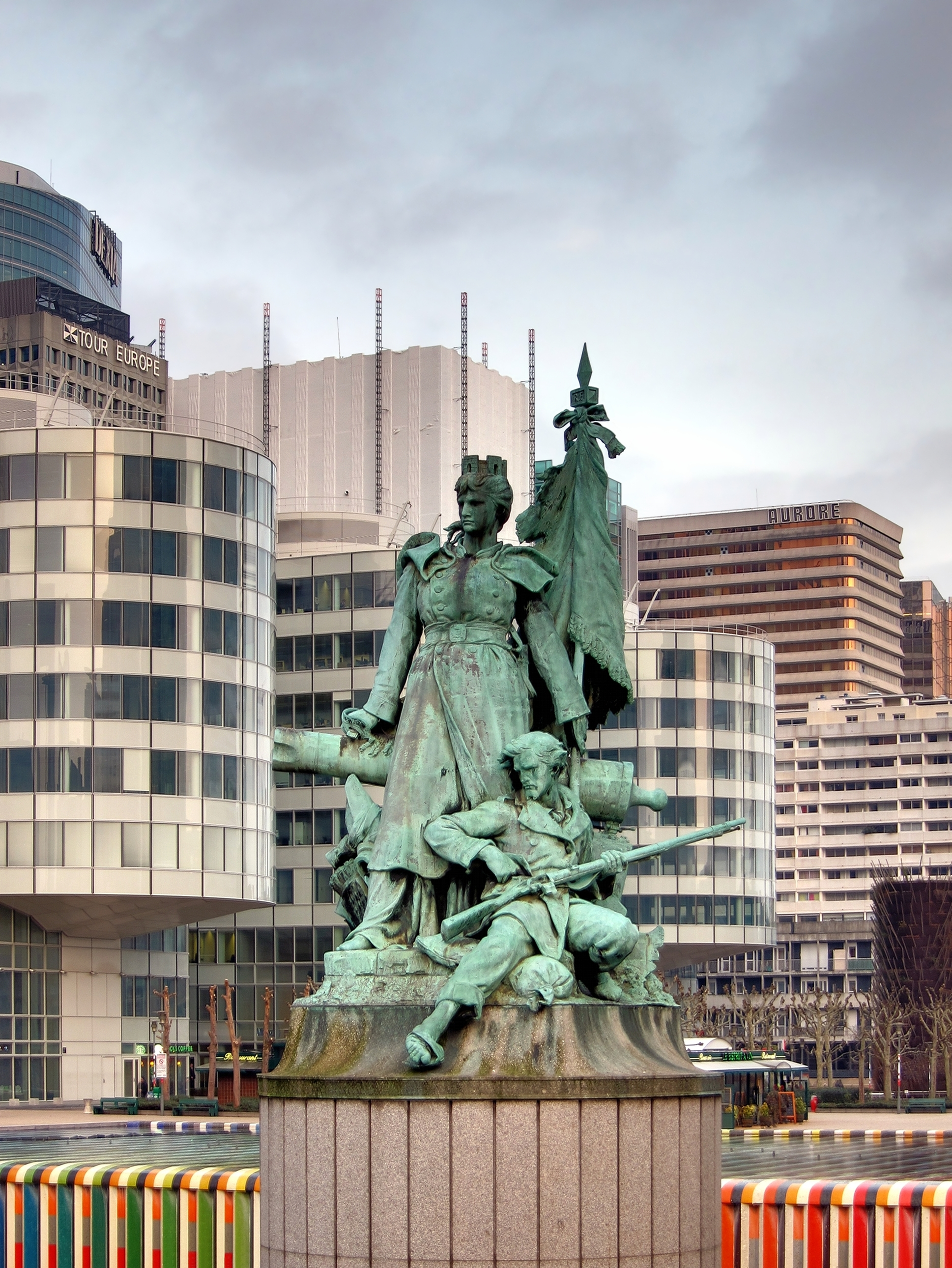 La défense de Paris by Louis-Ernest Barrias (1883) in La Défense business district, Paris, France.